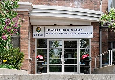 A view of the front entrance of The Study.